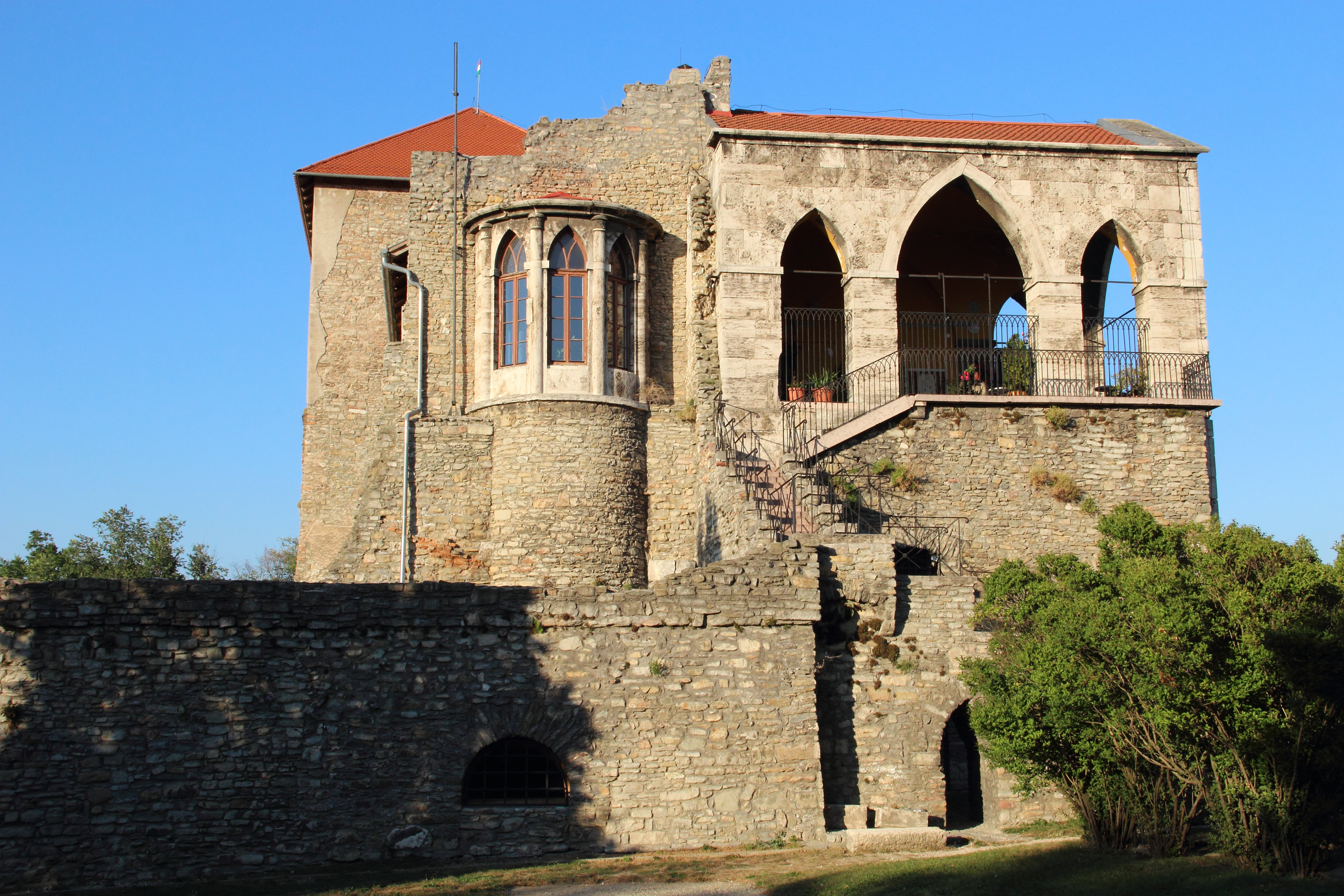 Tata Castle, 14th century, in Tata, Komárom-Esztergom county, Hungary.